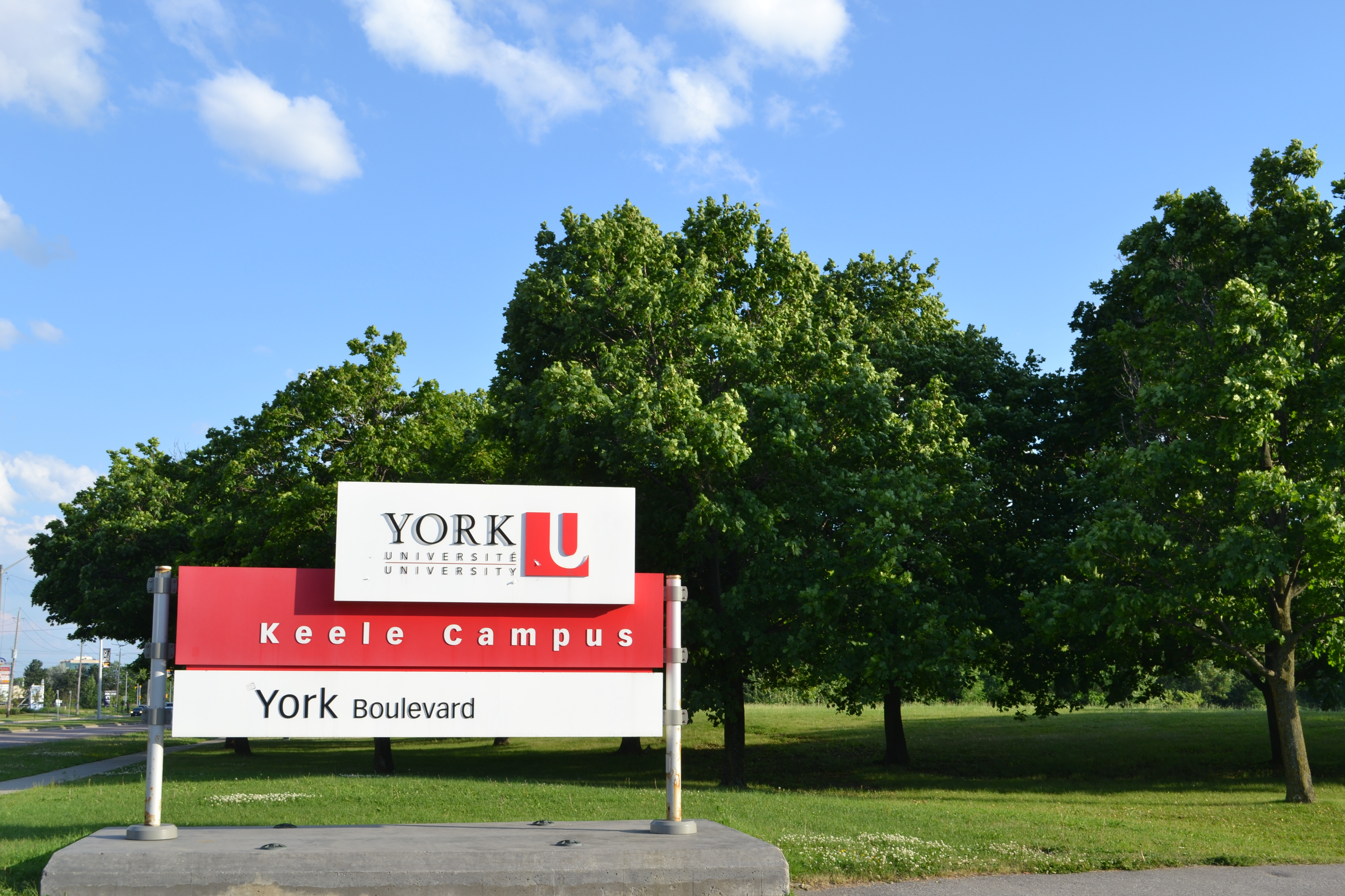 York University Keele Campus